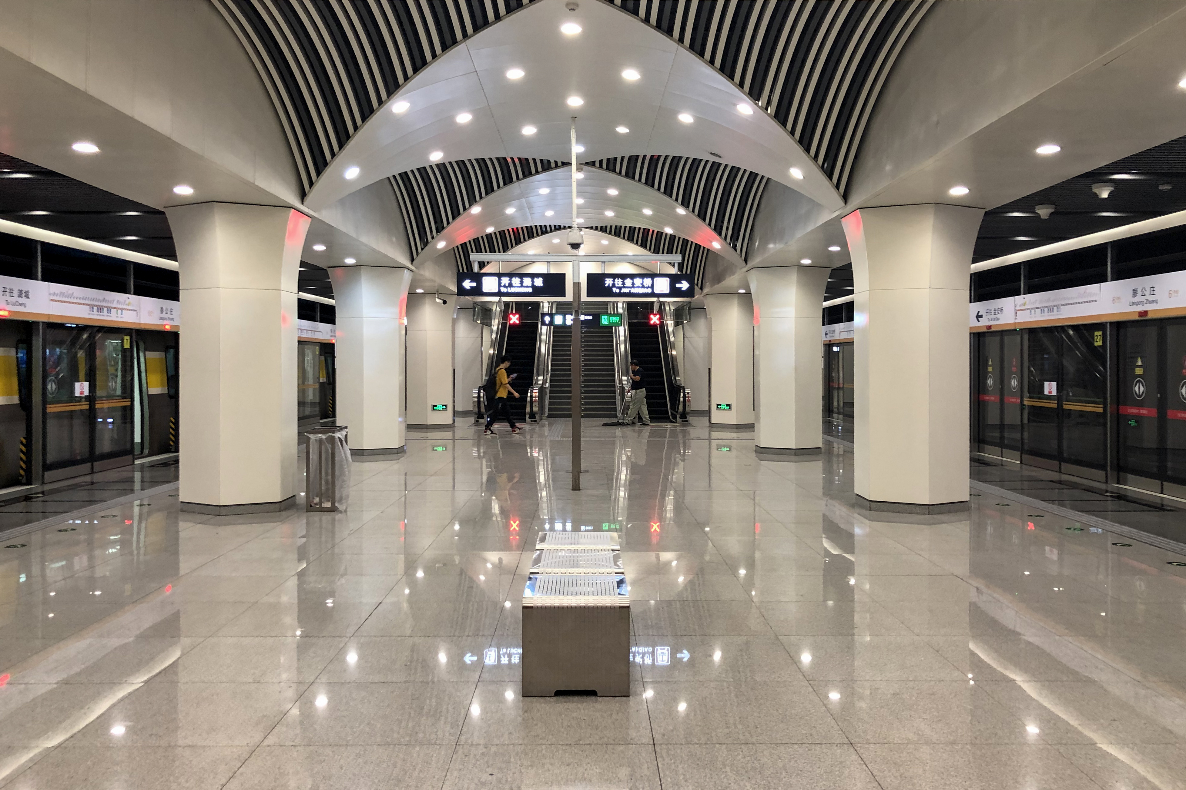 Liu Kung Chong...